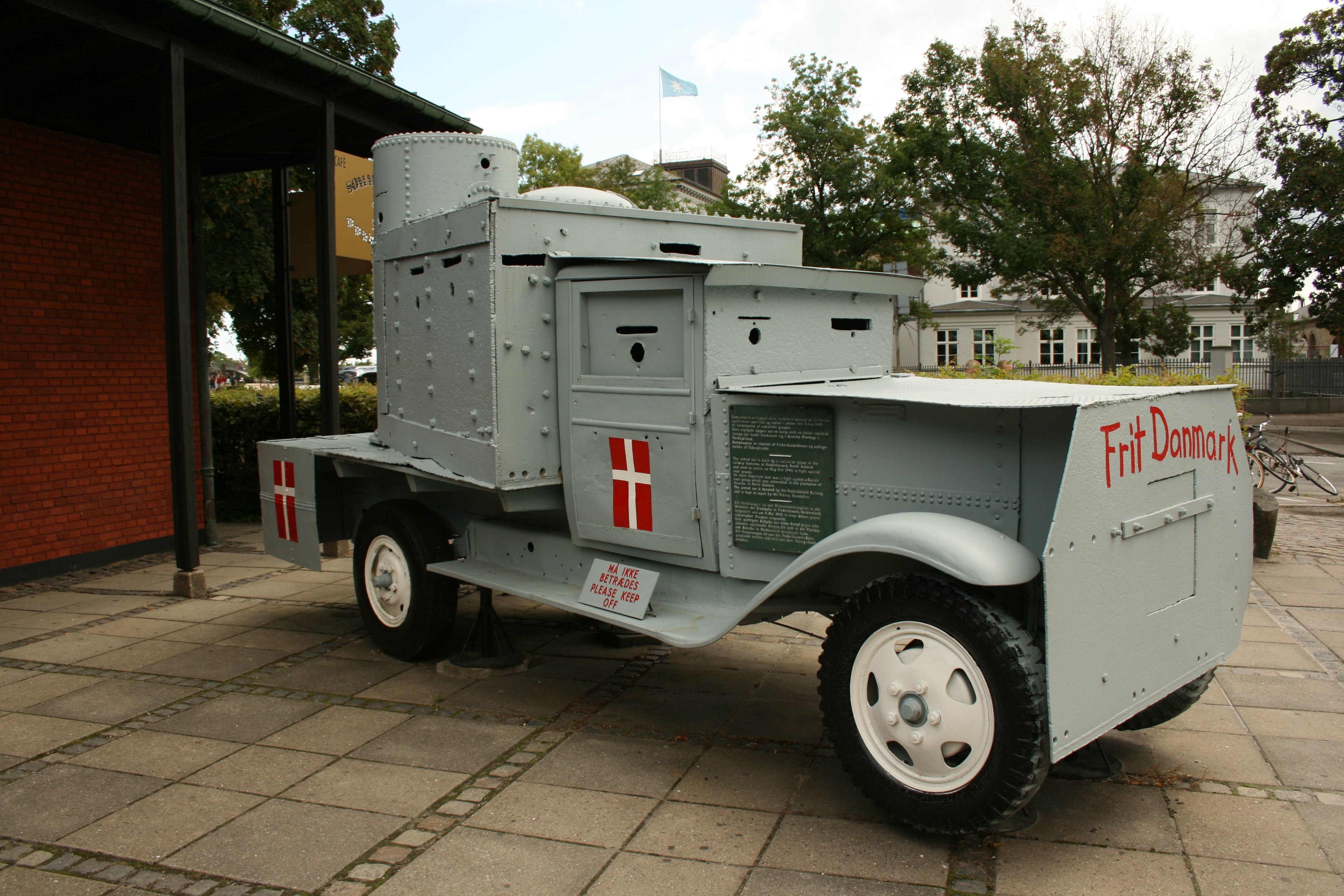 Homemade armoured car built by a military group at the entrance of the Museum of Danish Resistance in Copenaghen.